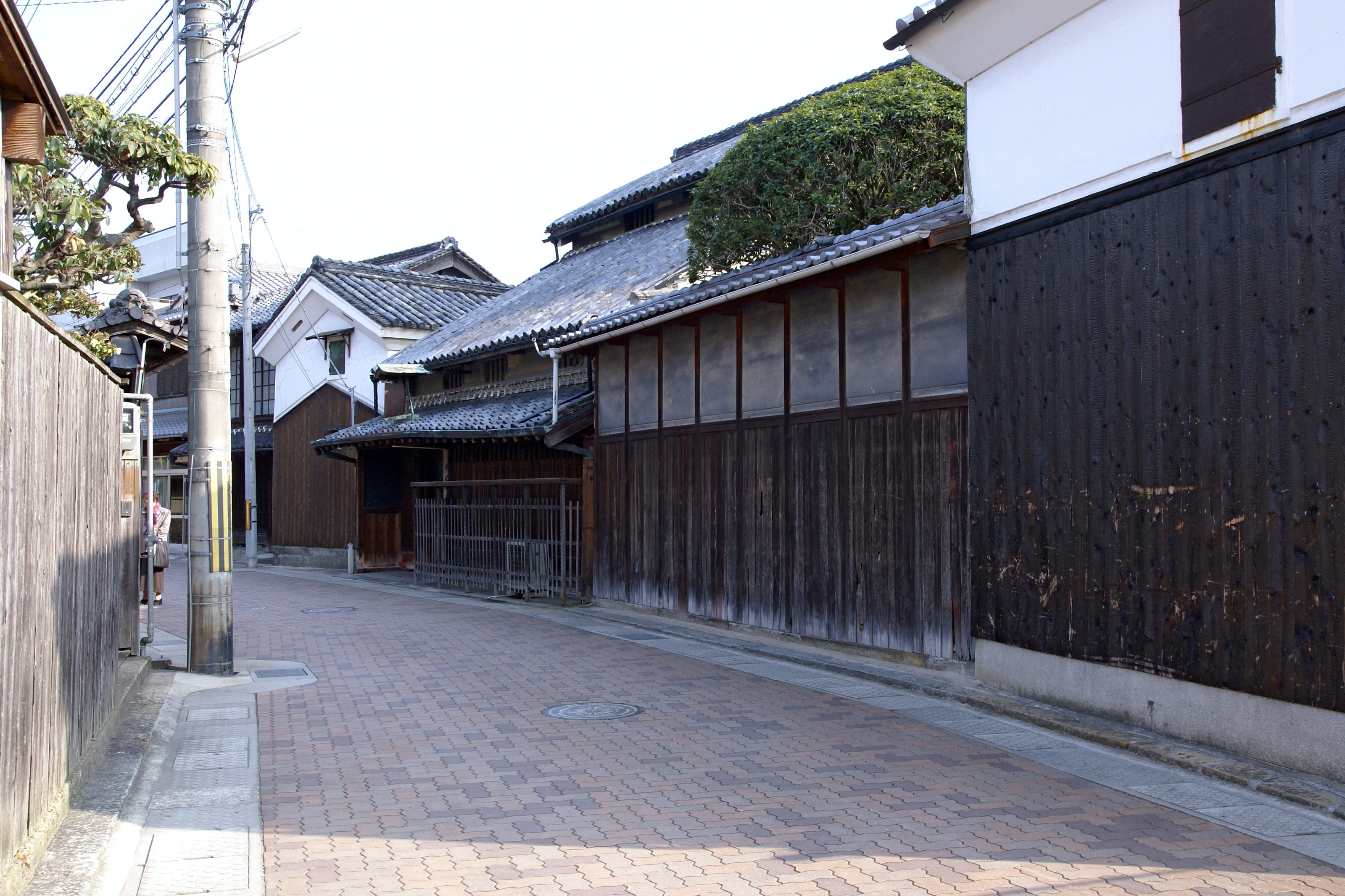 Himeji-street at Miki, Hyogo prefecture, Japan